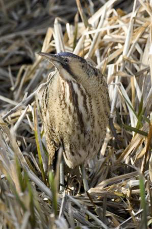 Bittern at Fishers Green, River Lee Country Park